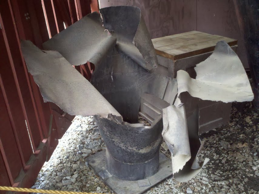 This is a dummy special effects smokestack that was installed on the Sierra No. 3 steam locomotive for the movie Back to the Future III, for the scenes where the locomotive explodes. It is on display at Railtown 1897 State Historic Park in Jamestown, California.